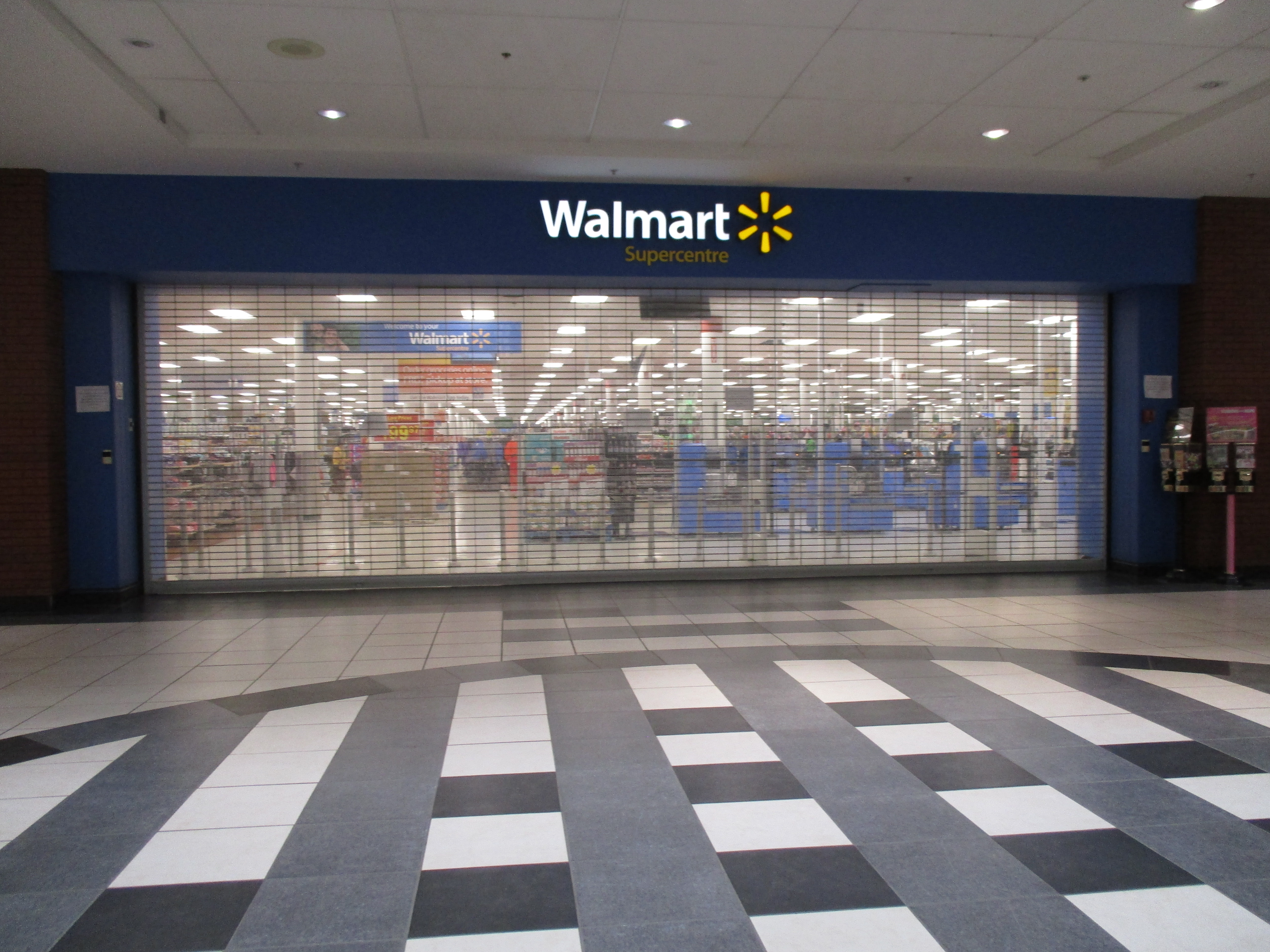 Walmart in Northgate Centre in Edmonton, Alberta. The security doors are shut but the service is open.